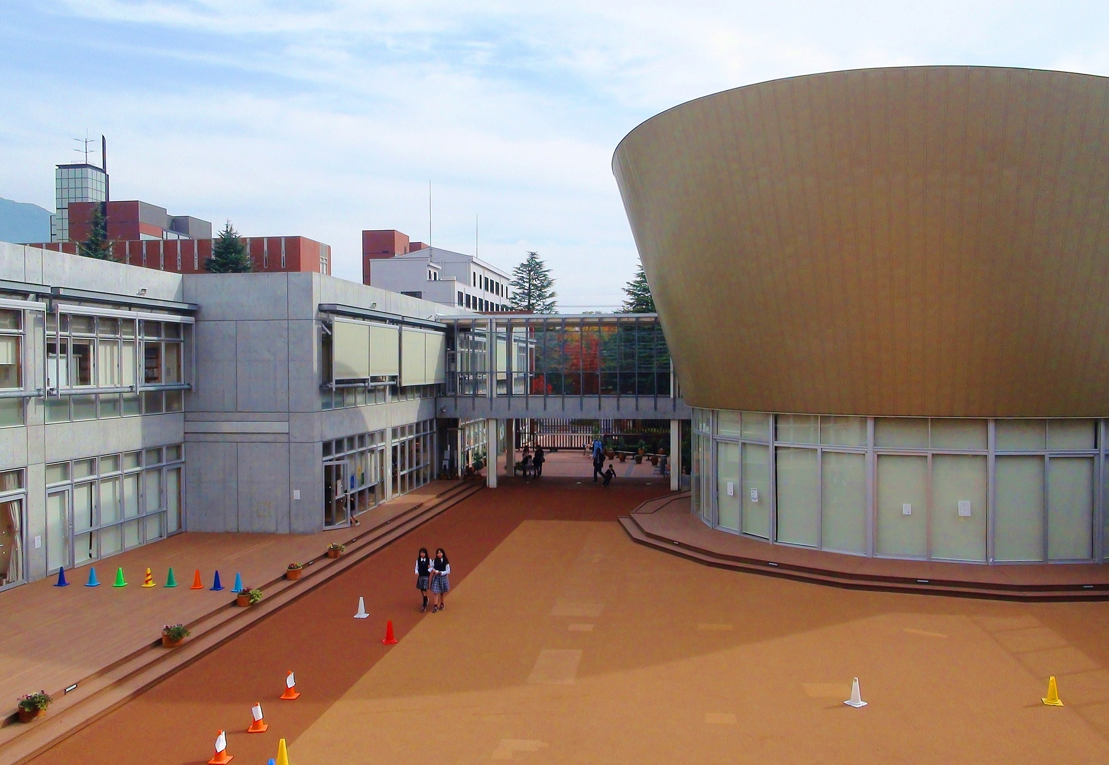 Yamanashigakuin elementary school grounds（Because it was a school festival, I can photograph it after a security check）